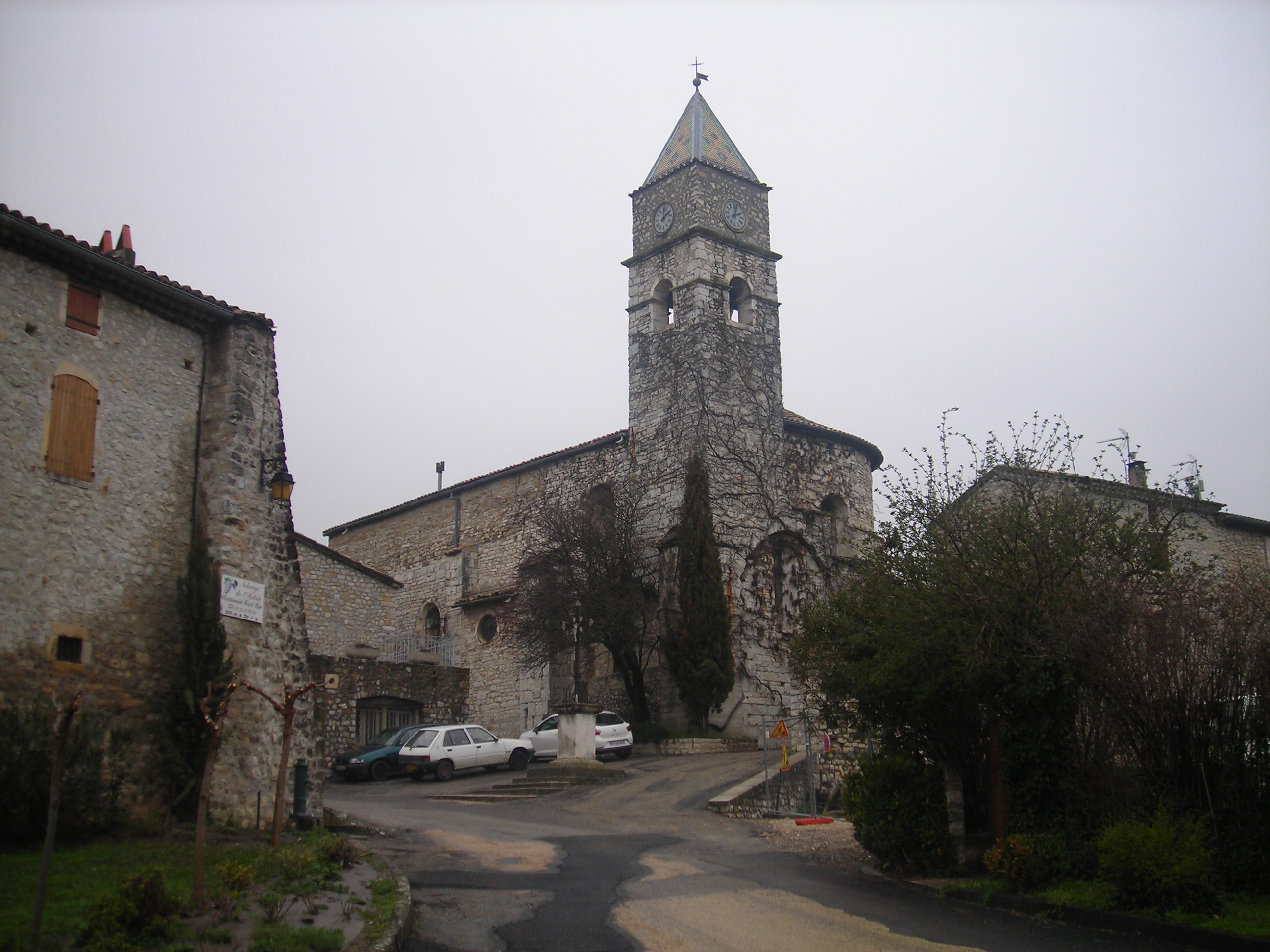 Village Valvignères, Ardèche landscape, France